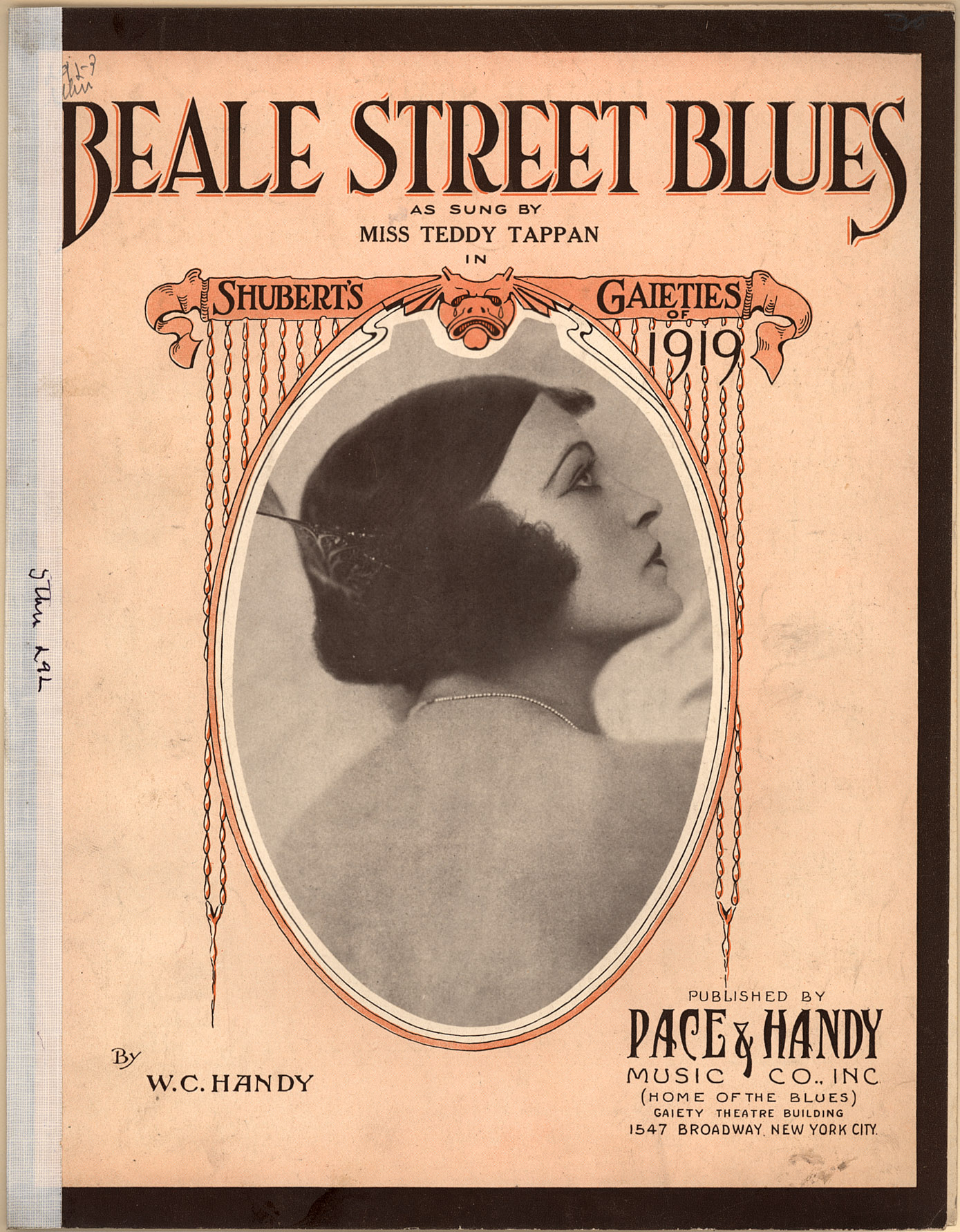 "Beale Street Blues", cover of 1919 sheet music republication (first published 3 years earlier) with photo of singer Teddy Tappan on cover.